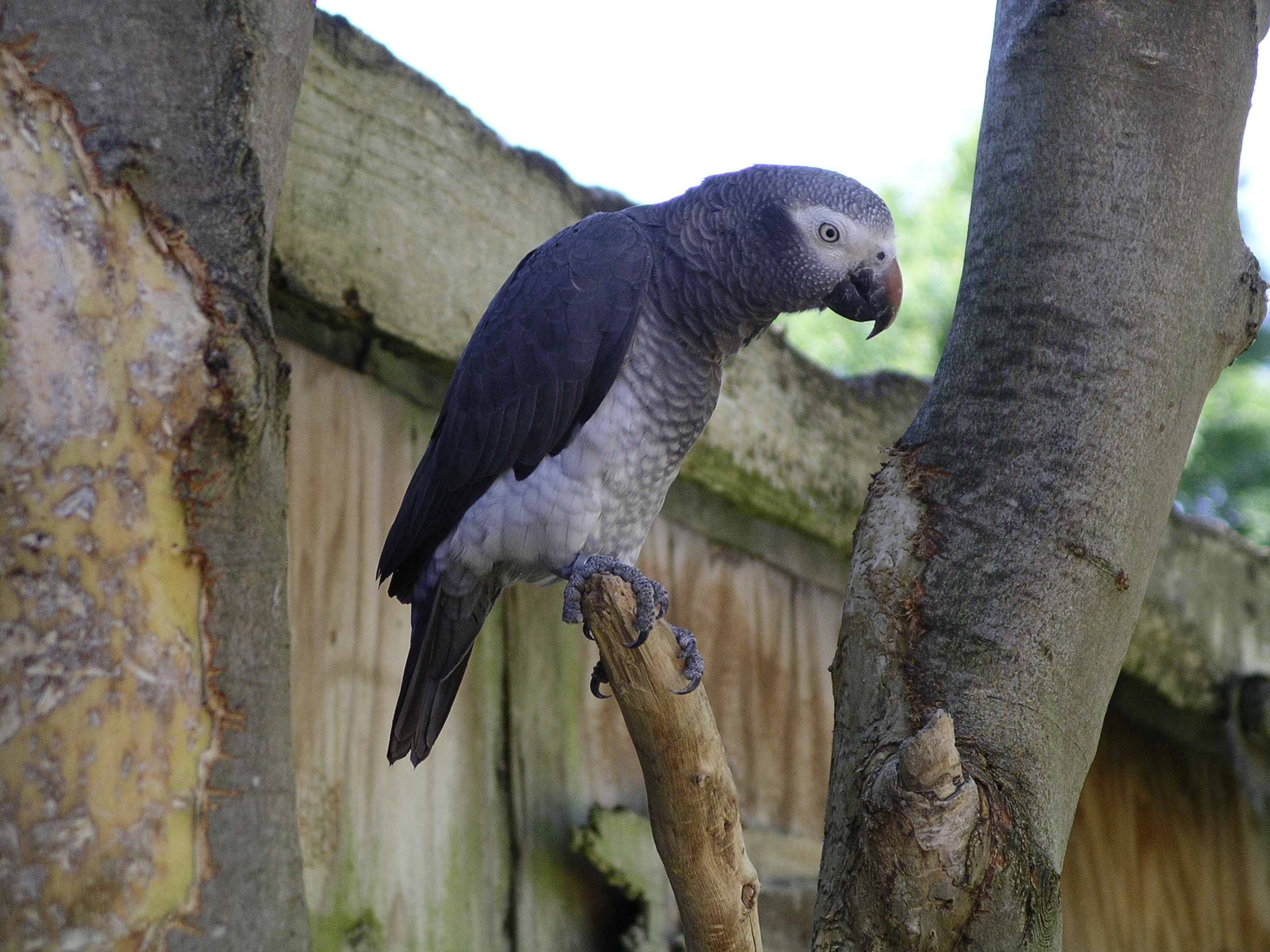 A Timneh African Grey Parrot that is allowed to fly free in Tropical Birdland, Leicestershire, England.